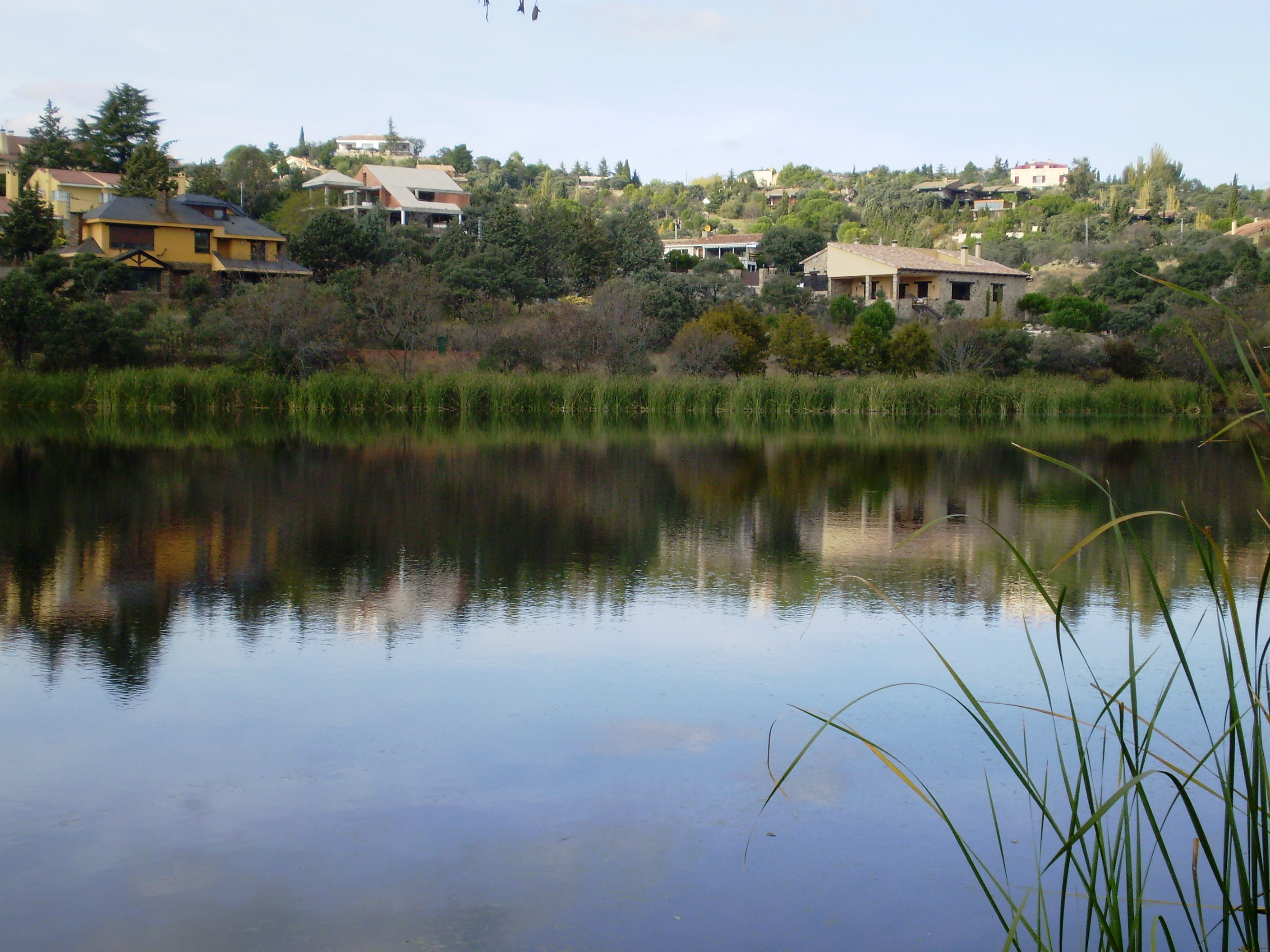 Los Peñascales is a neighborhood of Torrelodones. Community of Madrid - Spain.